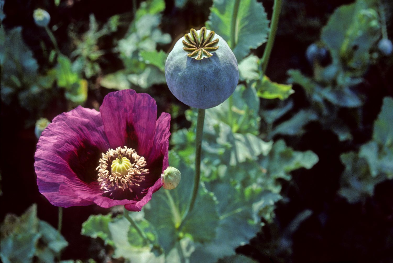 Opium poppy Papaver somniferum Field in Turkey, near Afyon, c. 1988 Credit: Mark Nesbitt and Delwen Samuel